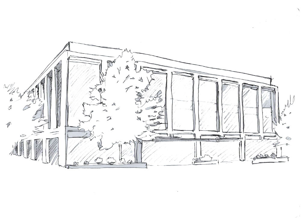 Sketch of Reserve Bank of australia Canberra